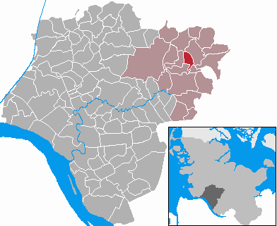 This map shows the area of the municipality Rade in the Kreis (district) Steinburg, Schleswig-Holstein, Germany.